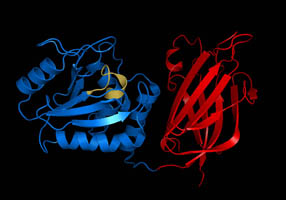 PDB structure entry 1D5R